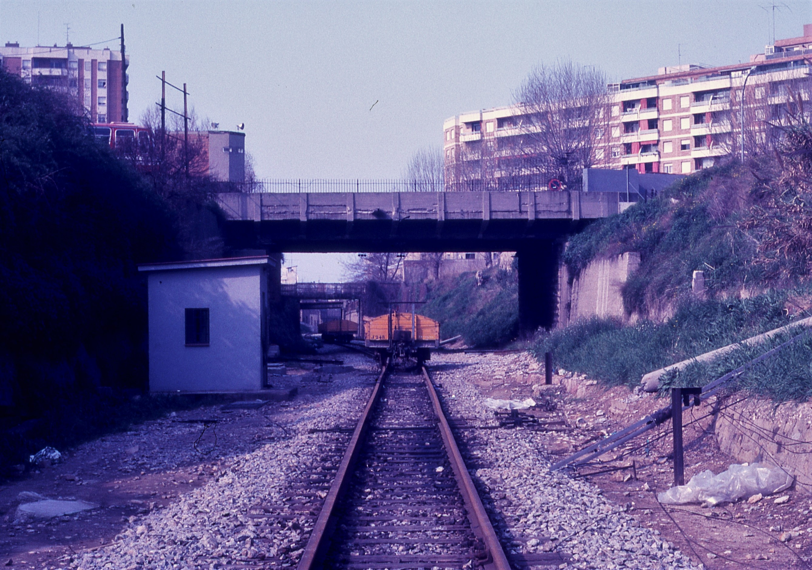 The track that ran between Plaça Espanya and Sant Josep, during its dismantling after the opening of the new underground route between Plaça Espanya and Sant Josep, commissioned on February 2, 1987. At this point of the route was located the Riera Blanca Junction, and here the track passed from single to double, which ran through what is now Avinguda del Carrilet. The residential building on the right is located on what is now Buenos Aires street.